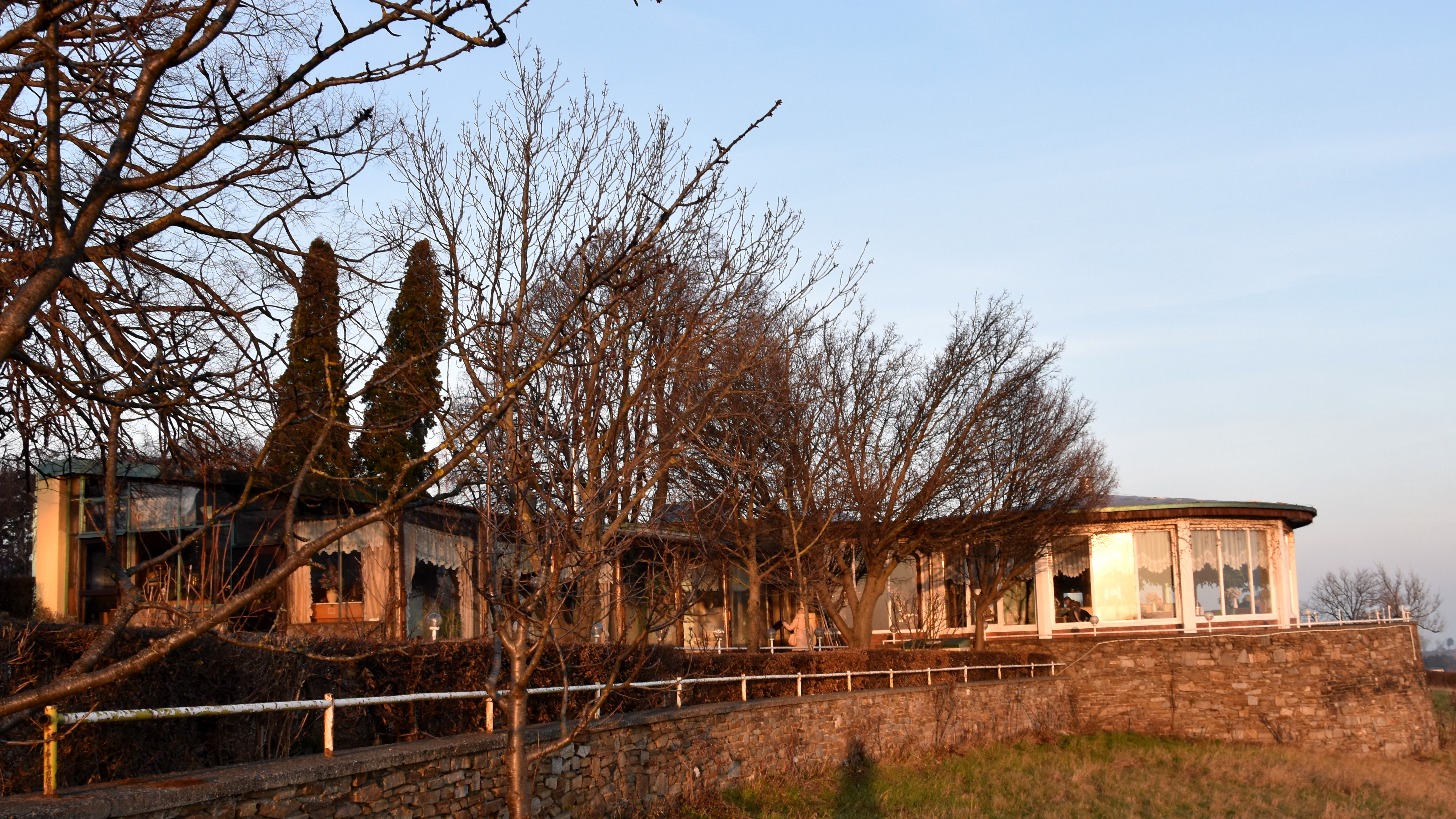 Café-Restaurant-Cobenzl built 1951 – 1952 Am Cobenzl near Vienna as Hans Hübners Bar und Cafépavillion. Design by Anton Potyka.